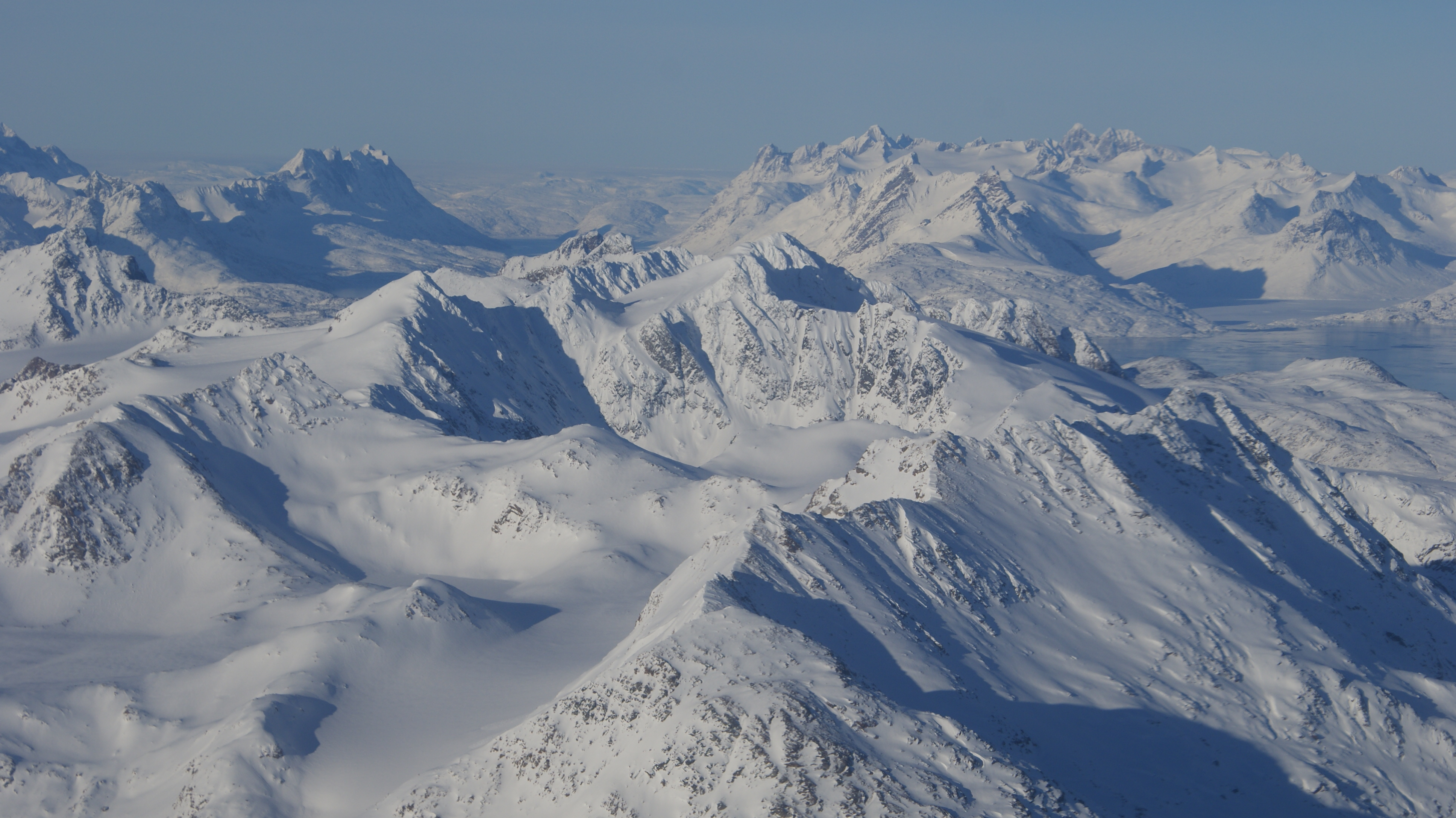 Aerial view of Apusiaajik island, Greenland. Photographed from Flugfélag Íslands de Havilland Canada Dash-8 106 during the Reykjavík-Kulusuk flight.